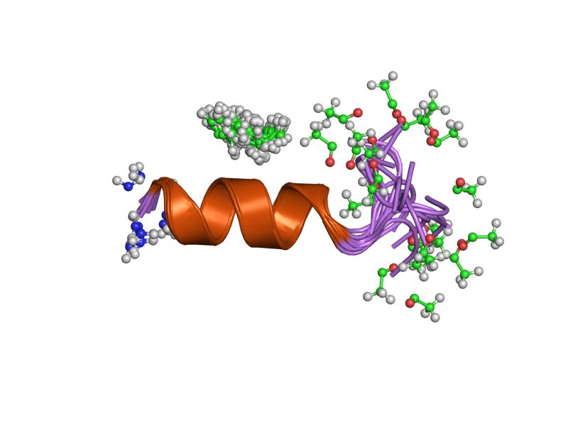 Cartoon representation of the molecular structure of protein registered with 1in2 code.